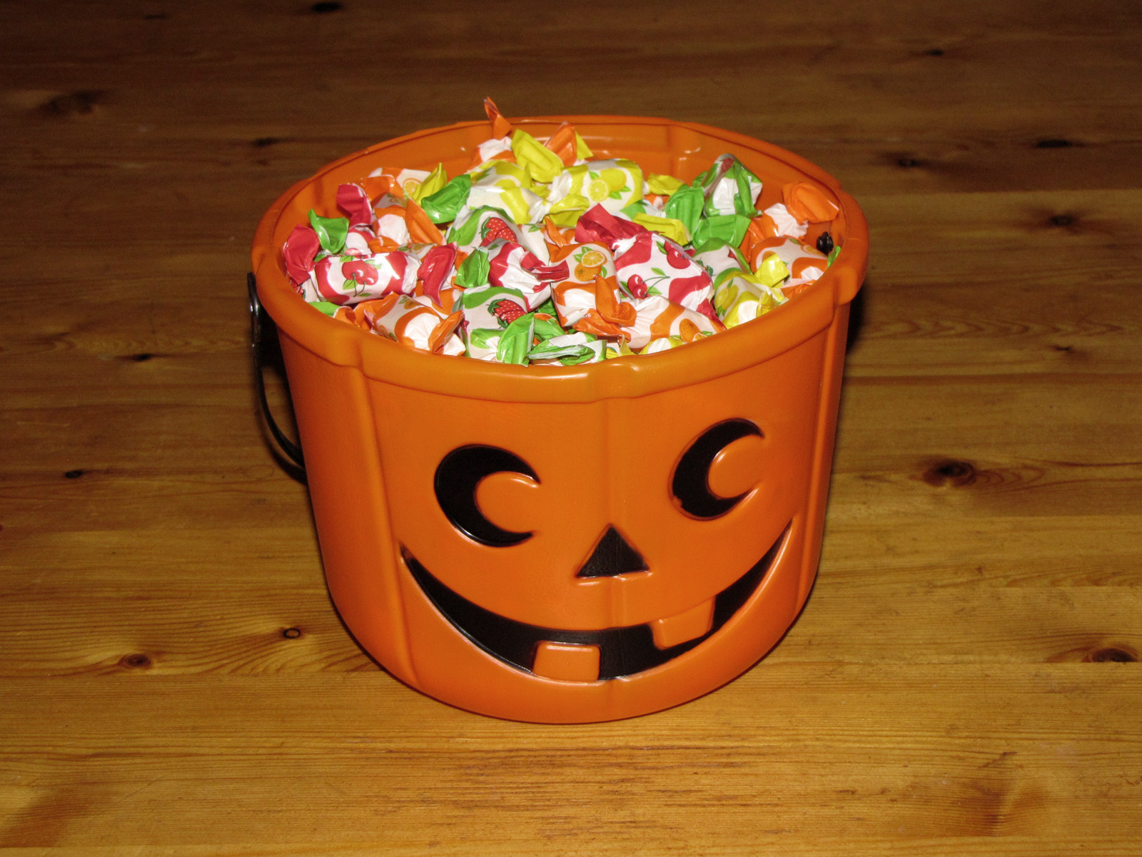 A Halloween candy bucket filled with candy.